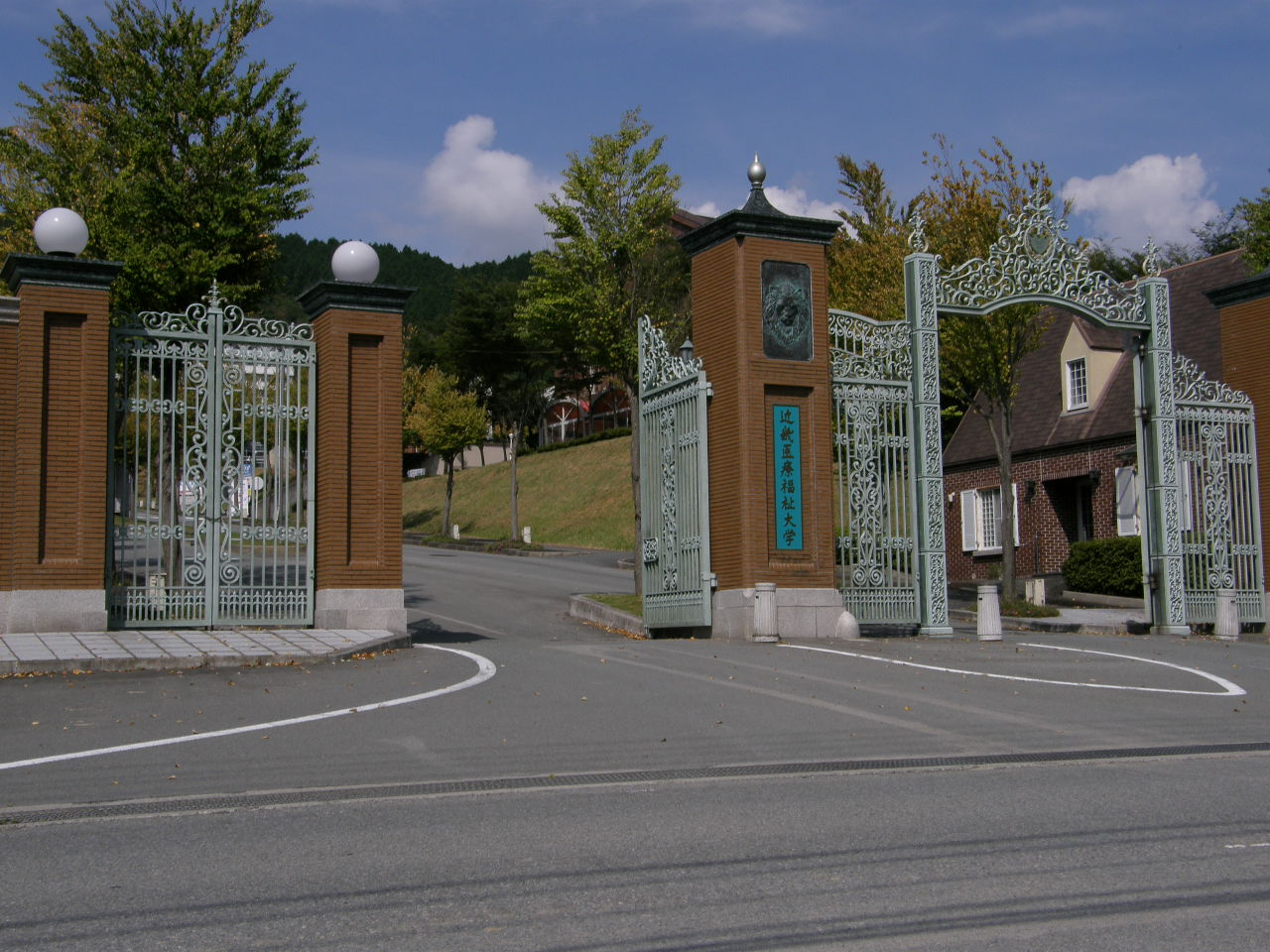 kinki-iryou-hukushi-daigaku-gate